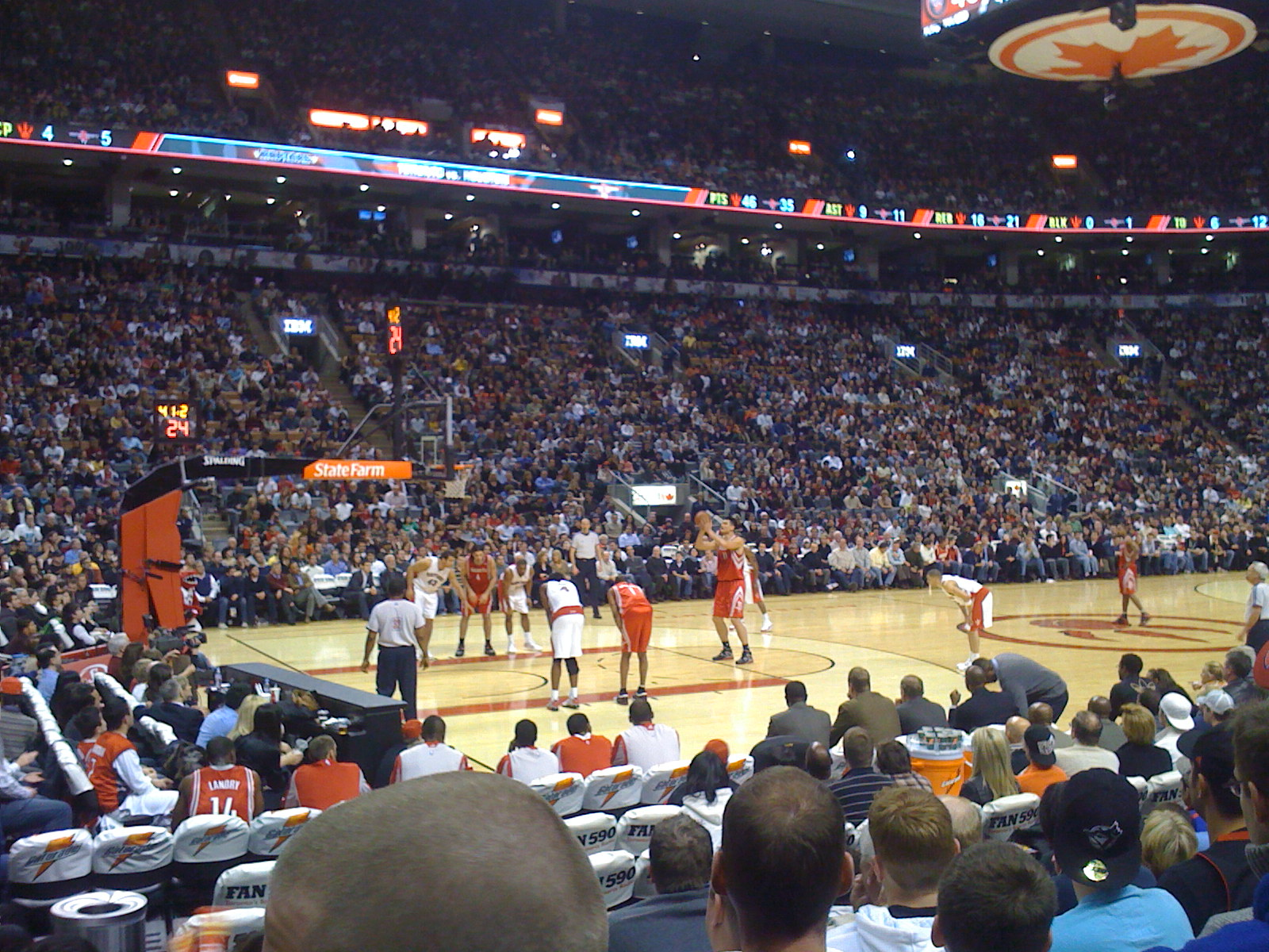 Toronto Raptors home game versus Houston Rockets, 2008-09 season